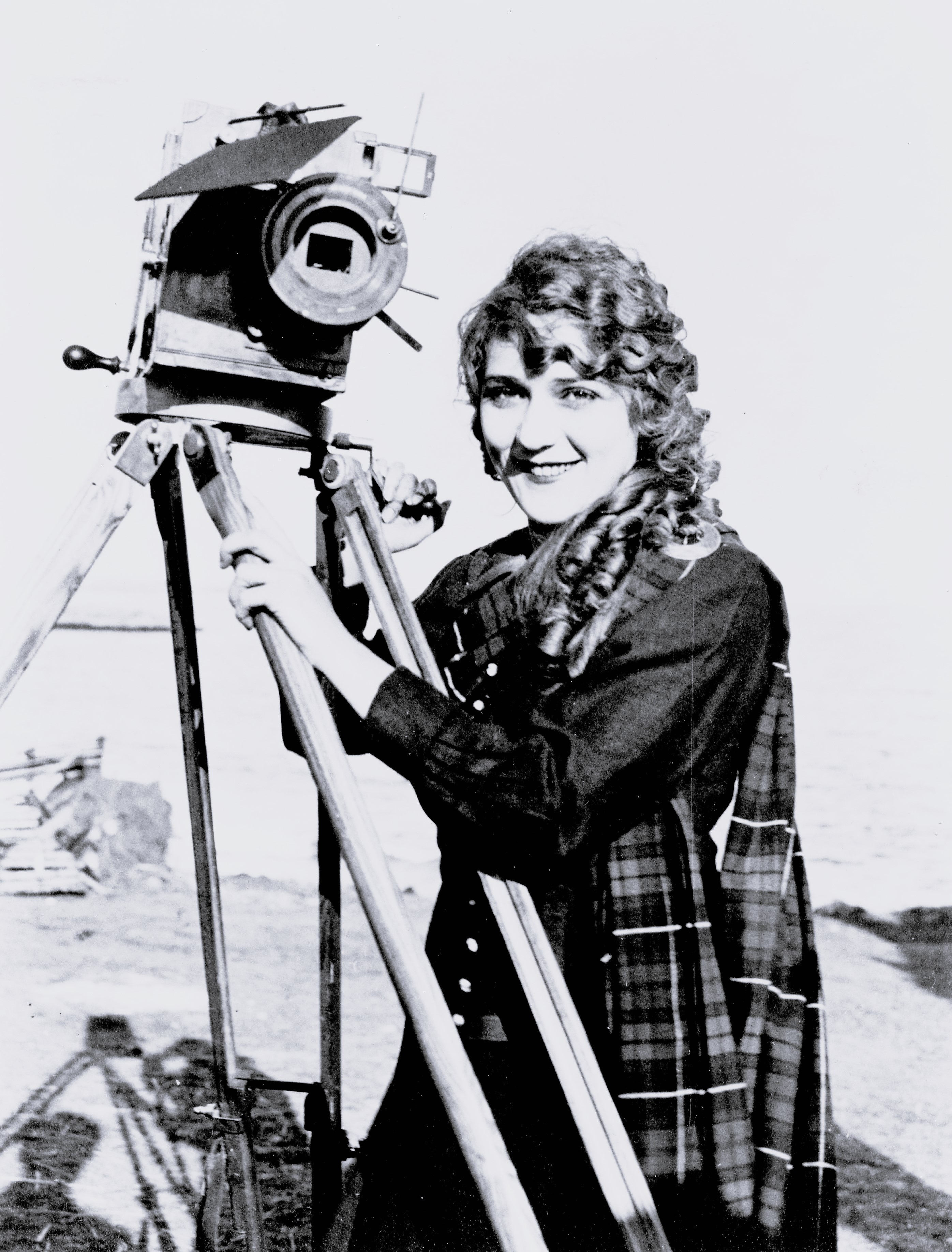 Public Domain. Suggested credit: Library of Congress via pingnews. Additional information from source: TITLE: [Mary Pickford, half-length portrait, standing, facing slightly left, with motion picture camera, on beach] CALL NUMBER: BIOG FILE - Pickford, Mary [P&P] REPRODUCTION NUMBER: LC-USZ62-113150 (b&w film copy neg.) MEDIUM: 1 photographic print. CREATED/PUBLISHED: c1916. NOTES: J220039 U.S. Copyright Office. SUBJECTS: Pickford, Mary, 1892-1979. Actresses--1910-1920. Motion picture cameras--1910-1920. FORMAT: Portrait photographs 1910-1920. Photographic prints 1910-1920. DIGITAL ID: (b&w film copy neg.) cph 3c13150 CARD #: 95502963